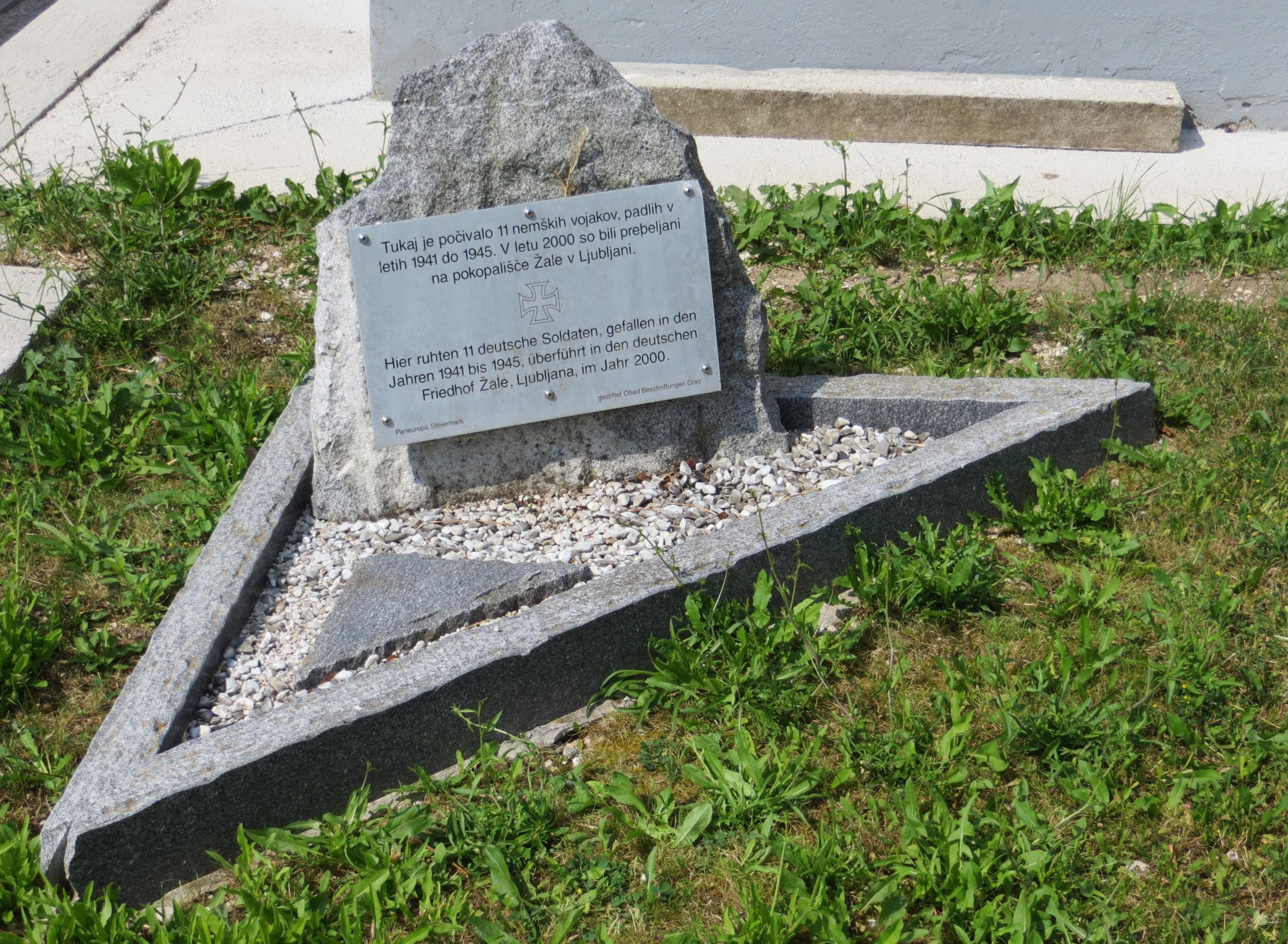 Marker at the site of the Cemetery Mass Grave in Bovec, Municipality of Bovec, Slovenia